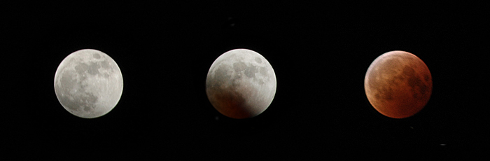 eclipse of the moon march compare 2007